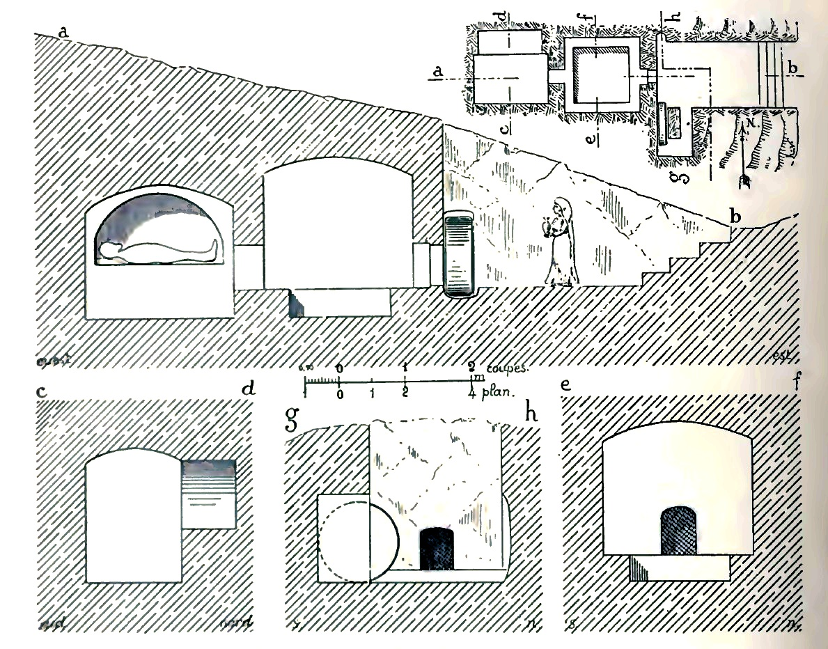 Cross sections of The Tomb of Jesus by Le P. Hugues VINCENT (1912)